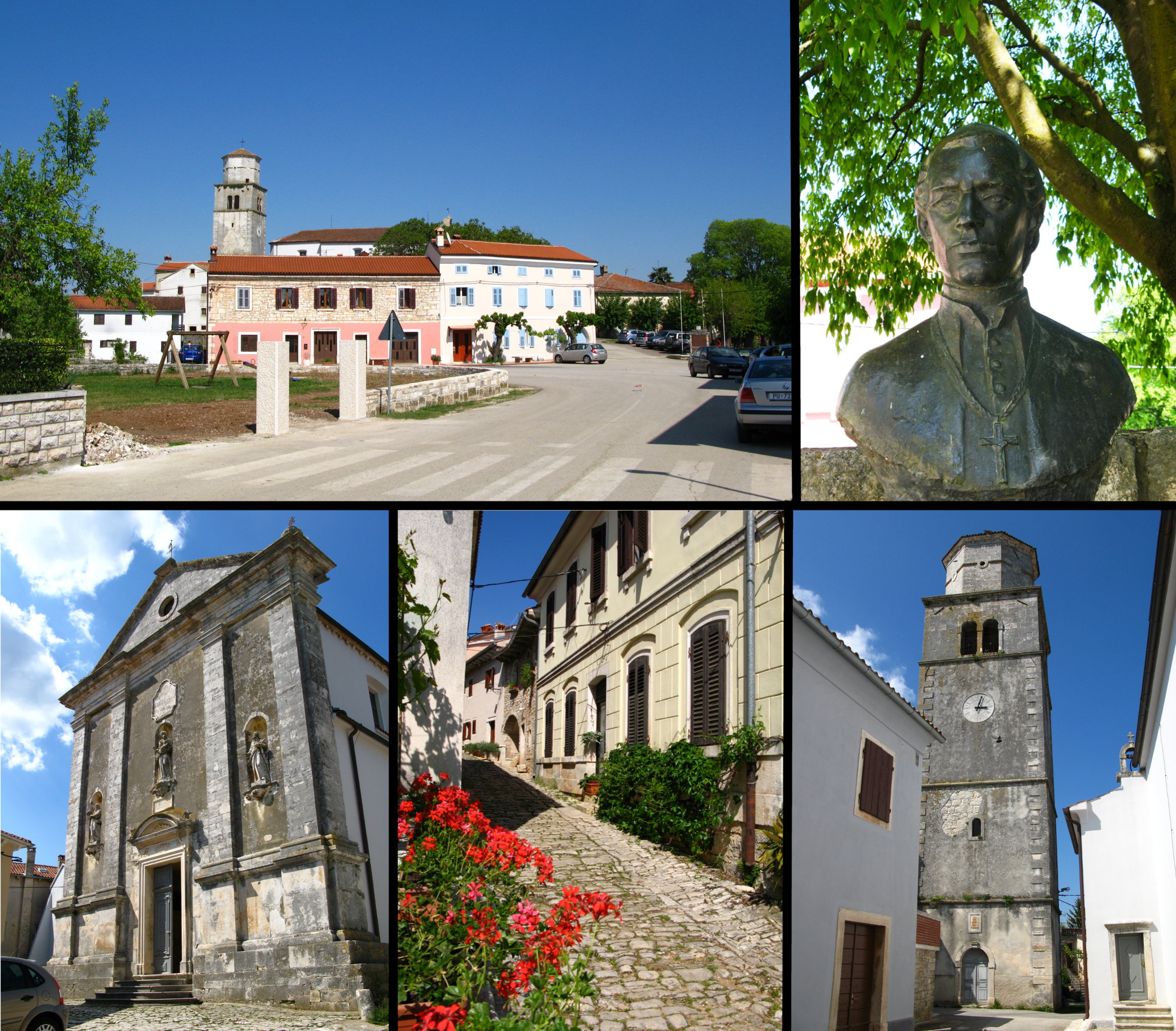 Tinjan, Istra, Croatia